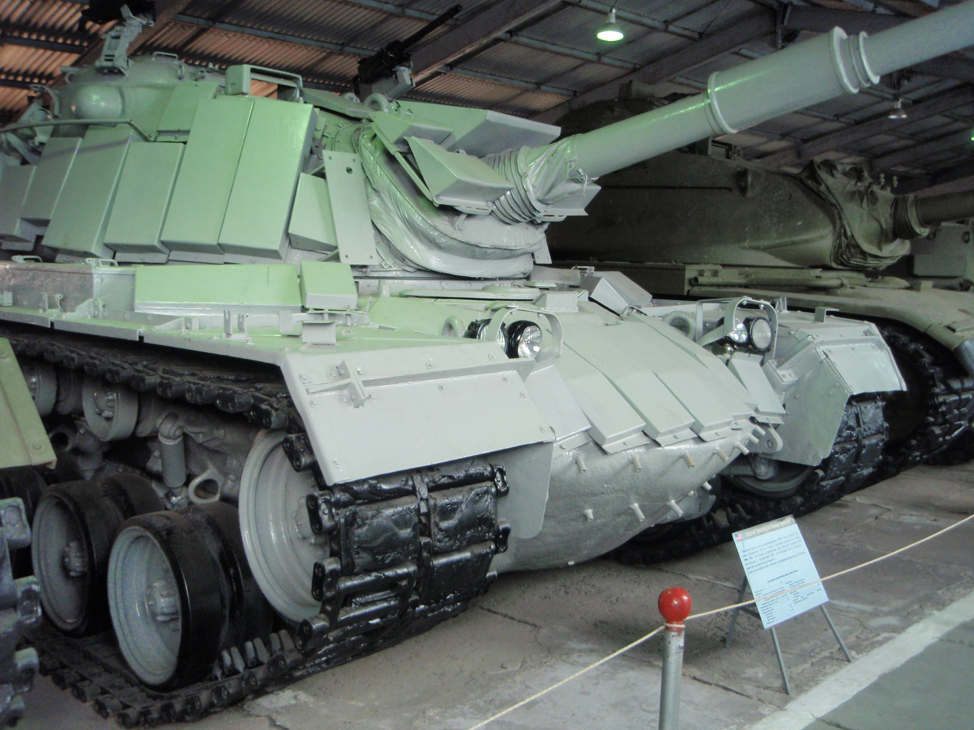 Ex-Israeli ERA-armored M48 tank. Tank was captured during the Battle of Sultan Yacoub.